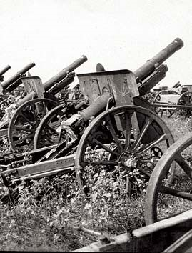 105mm이고 미군에 폐기됨